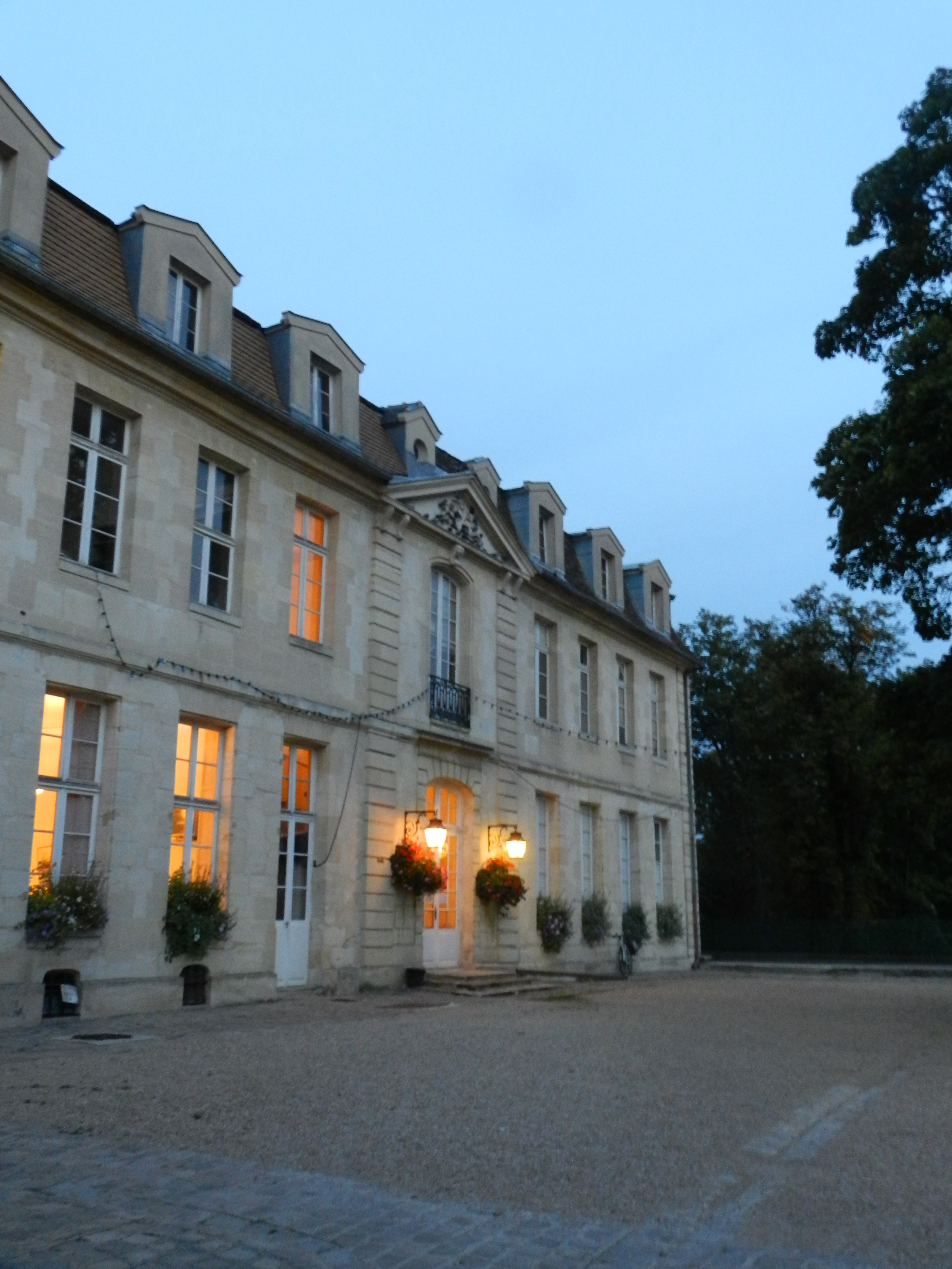 Le Château Laboissière de Fontenay-aux-Roses.